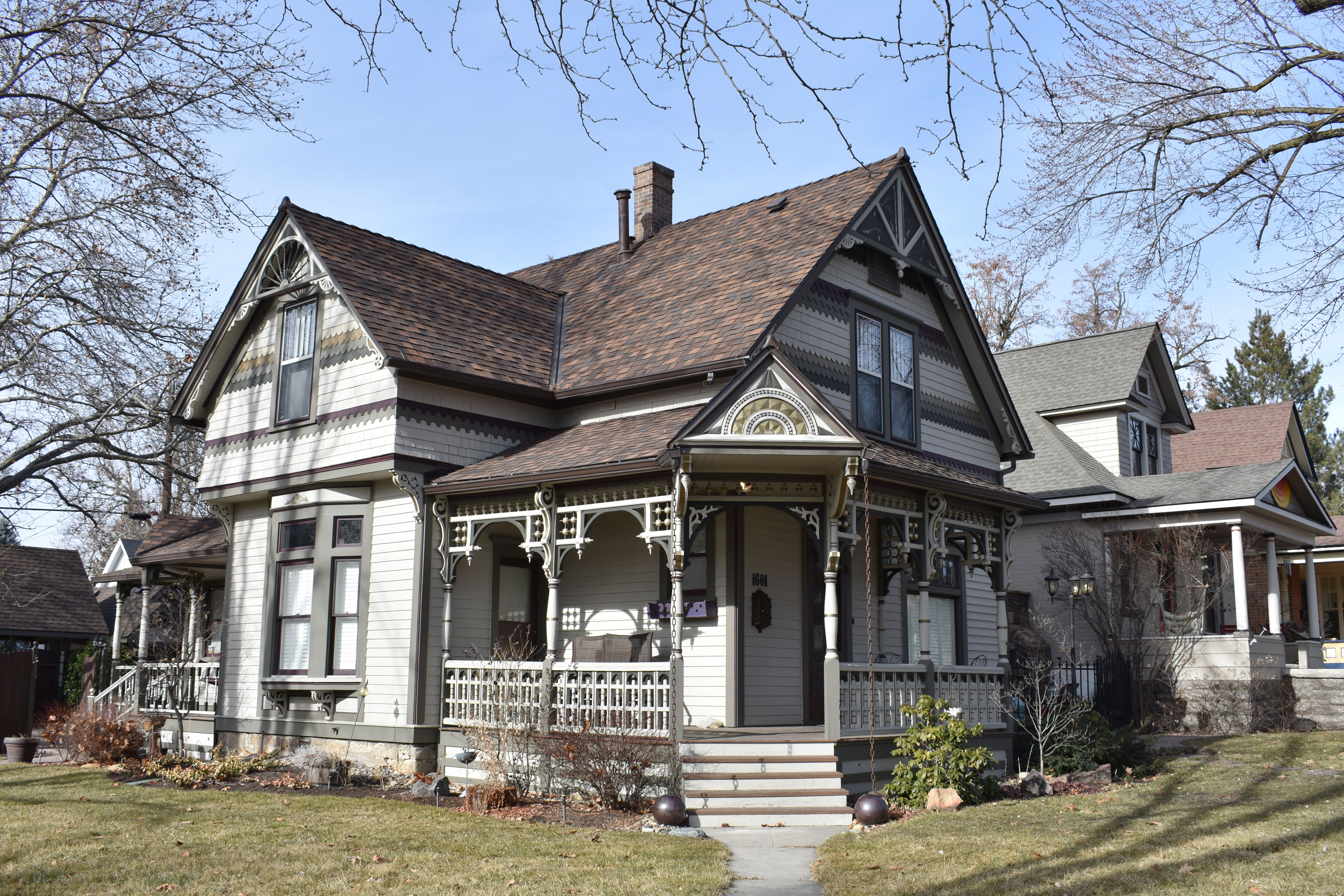 The Anton Goreczky House (1898) in Boise, Idaho, is listed on the National Register of Historic Places.